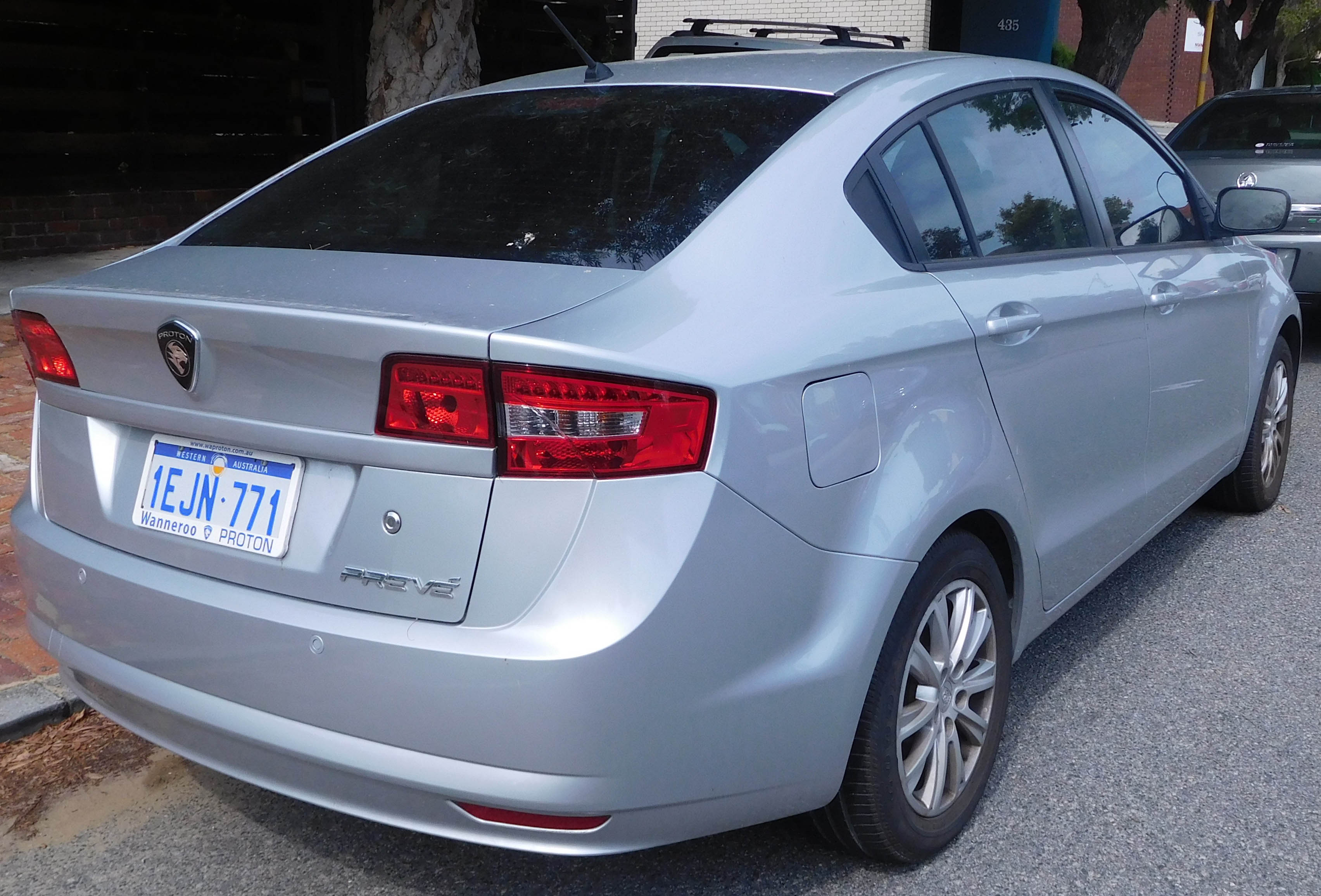 2013 Proton Prevé (CR MY13) GX sedan. Photographed in West Leederville, Western Australia Australia.